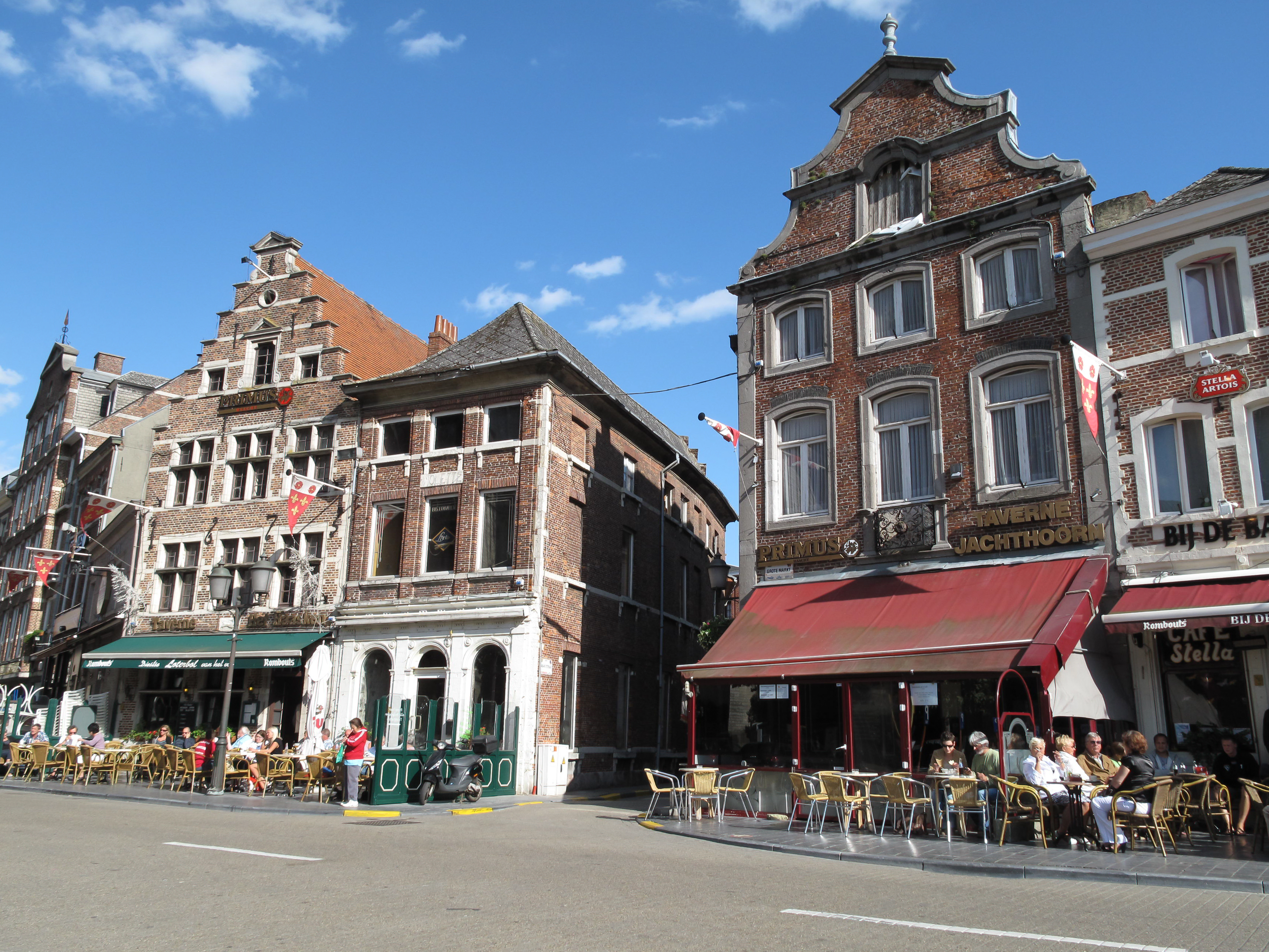 Diest, monumental houses